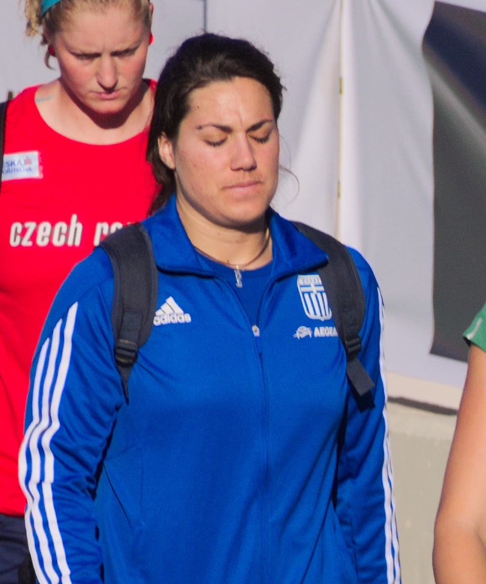 Chrysoula Anagnostopoulou after the end of the event of discus throwing at 2015 European Team Championships First League.